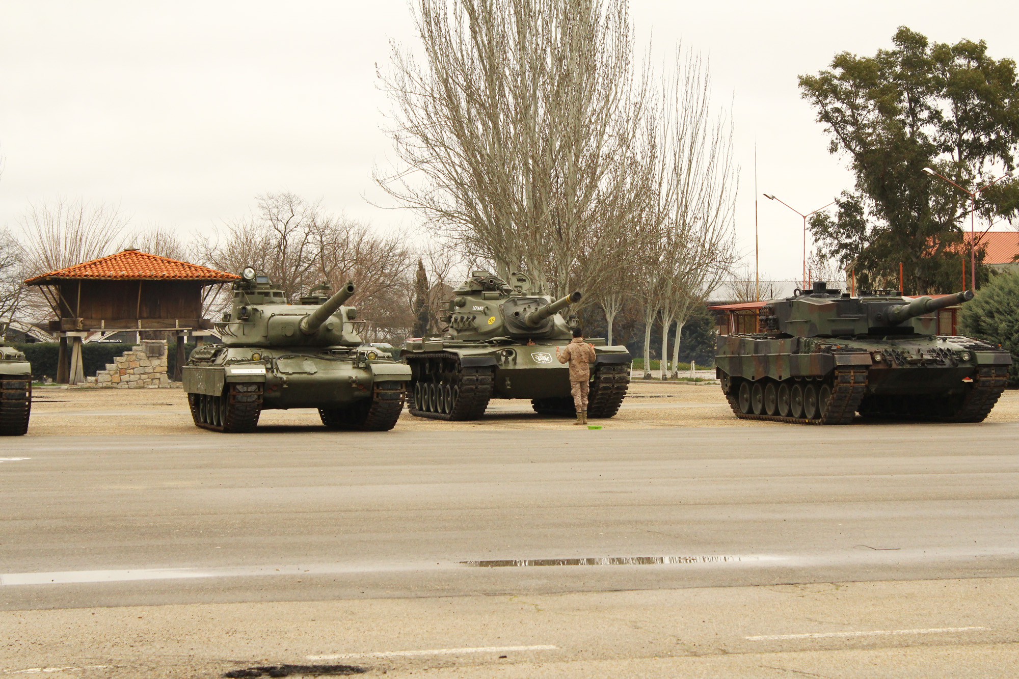 De izquierda a derecha: un tanque AMX-30 (construido en Francia), un tanque M-60 (construido en Estados Unidos) y un tanque Leopard II (construido en Alemania). Los dos primeros ya no están en servicio. El Leopard II es hoy el carro de combate principal del Ejército español. Armored Units Museum of El Goloso From left to right: AMX-30 tank (built in France), an M-60 tank (built in the United States) and a Leopard II tank (built in Germany). The first two are no longer in service. The Leopard II is now the main battle tank of the Spanish Army.